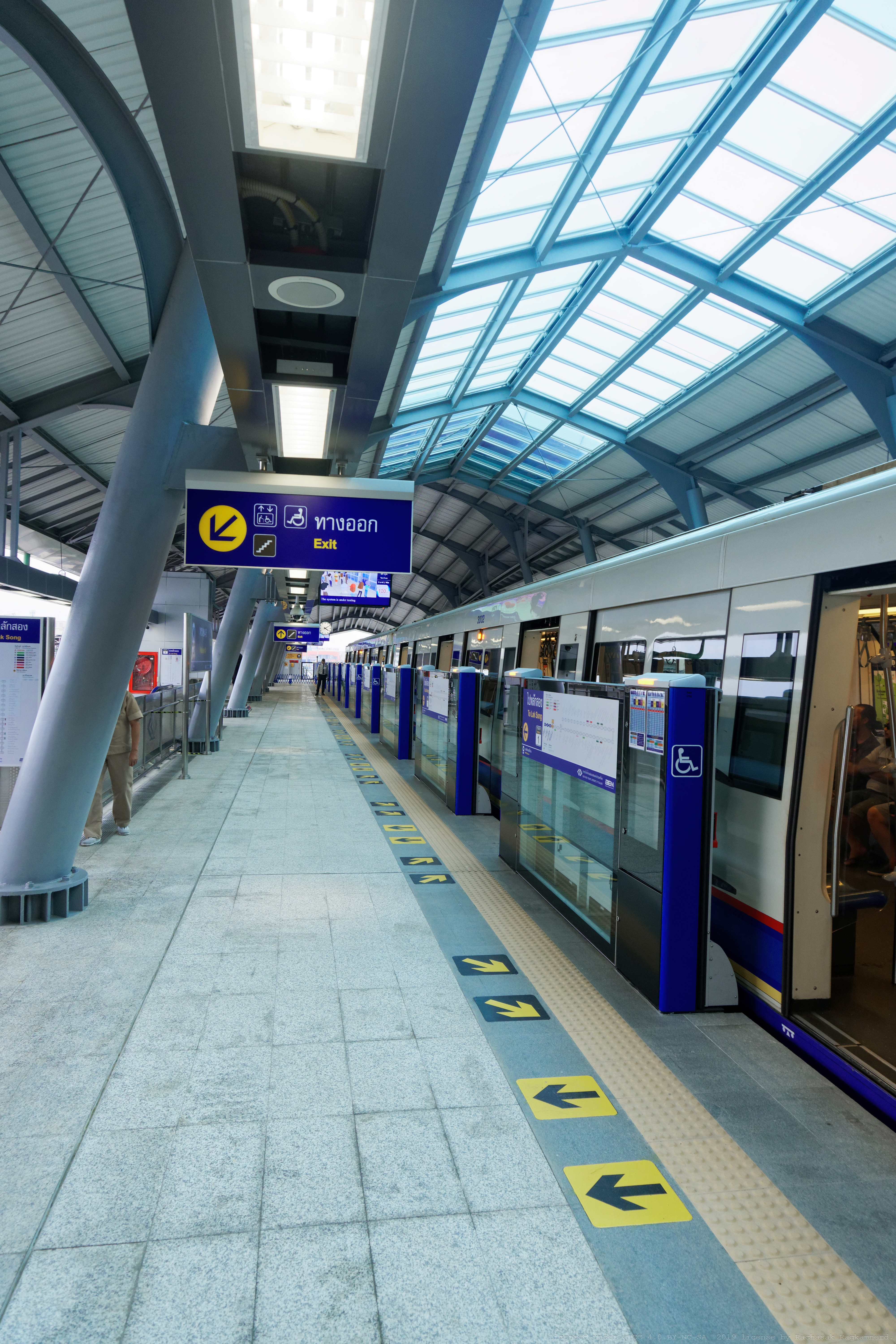 MRT Phetkasem 48 station: Platform (Lak Song side)